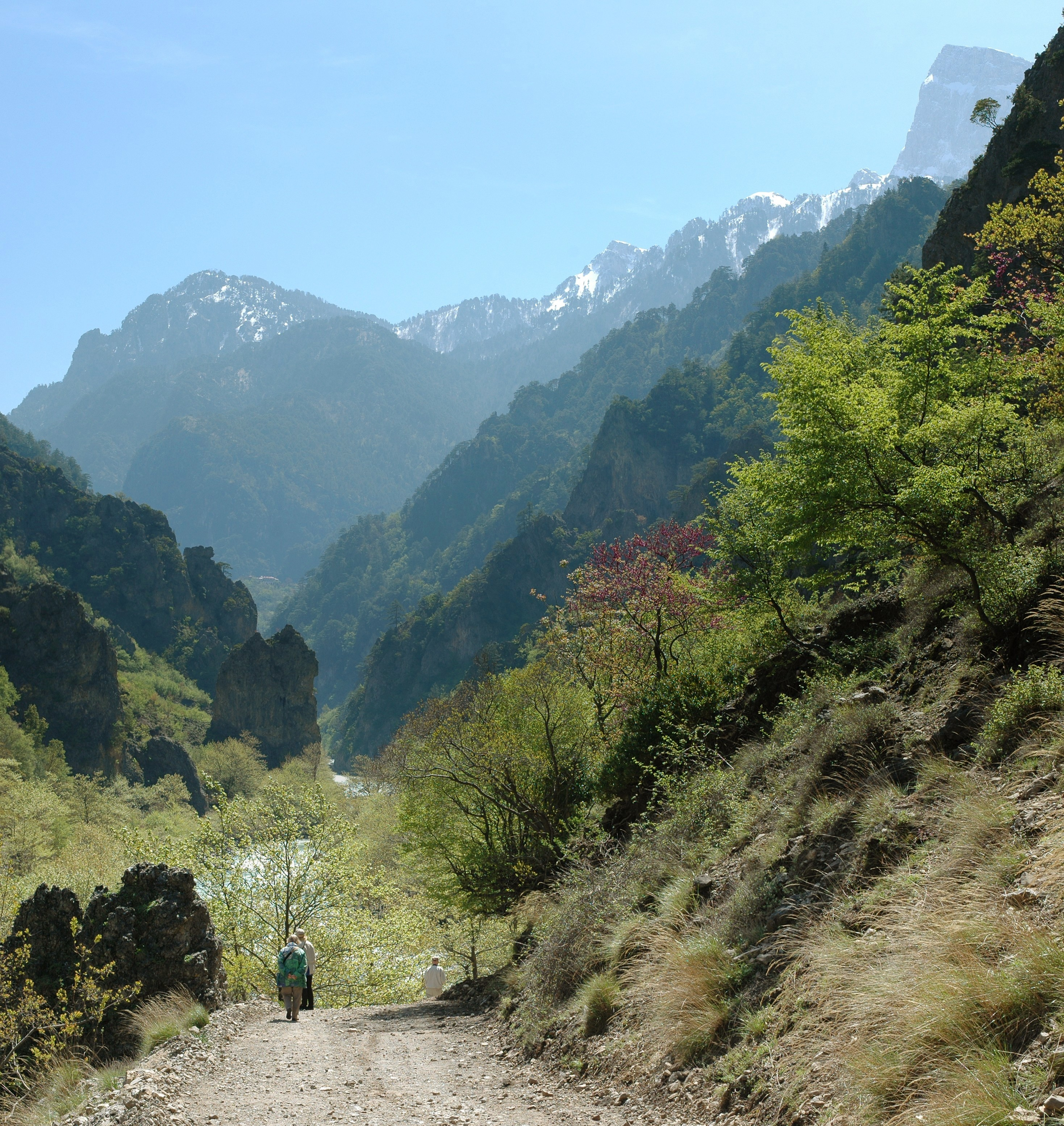 Aoos gorge, Vikos-Aoos National Park, Epirus, Greece. In the upper right corner is the top of Gamila. On the mid left is Stomio monastery.